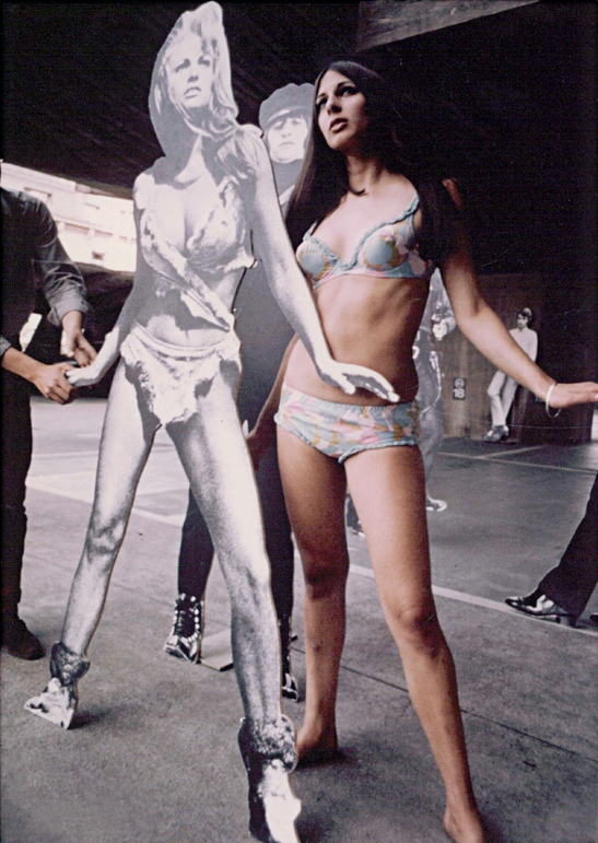 1969 Werbefilm-Imitationen Condor Films